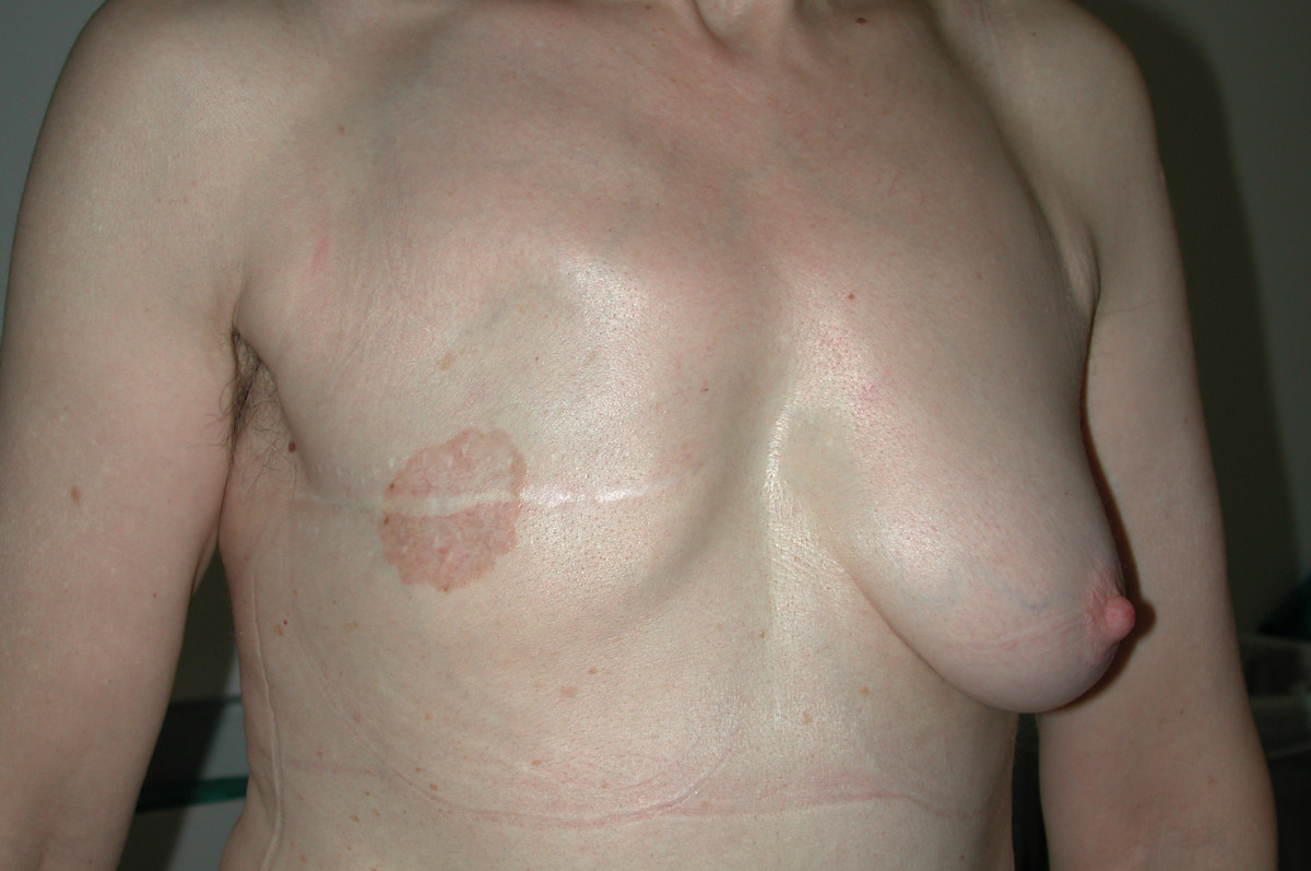 Clinical aspects of mammary Paget's disease occurred on the thoracic wall where simple mastectomy was performed some years before.